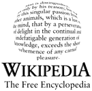 The logo is inspired in the former Wikipedia's logo, when it was Nupedia auxiliar project (see). It's made by superposing a Thomas Hobbes's phrase on a circle, using fisheye effect to simulate a sphere. The phrase is a quote from "Leviathan" by Thomas Hobbes, (Part I, Chapter VI), which says: "man is distinguished, not only by his reason, but by this singular passion from other animals, which is a lust of the mind, that by a perseverance of delight in the continual and indefatigable generation of knowledge, exceeds the short vehemence of any carnal pleasure". The quote is part of a more complete phrase, the following one: "Desire to know why, and how, curiosity; such as is in no living creature but man: so that man is distinguished, not only by his reason, but also by this singular passion from other animals; in whom the appetite of food, and other pleasures of sense, by predominance, take away the care of knowing causes; which is a lust of the mind, that by a perseverance of delight in the continual and indefatigable generation of knowledge, exceedeth the short vehemence of any carnal pleasure.